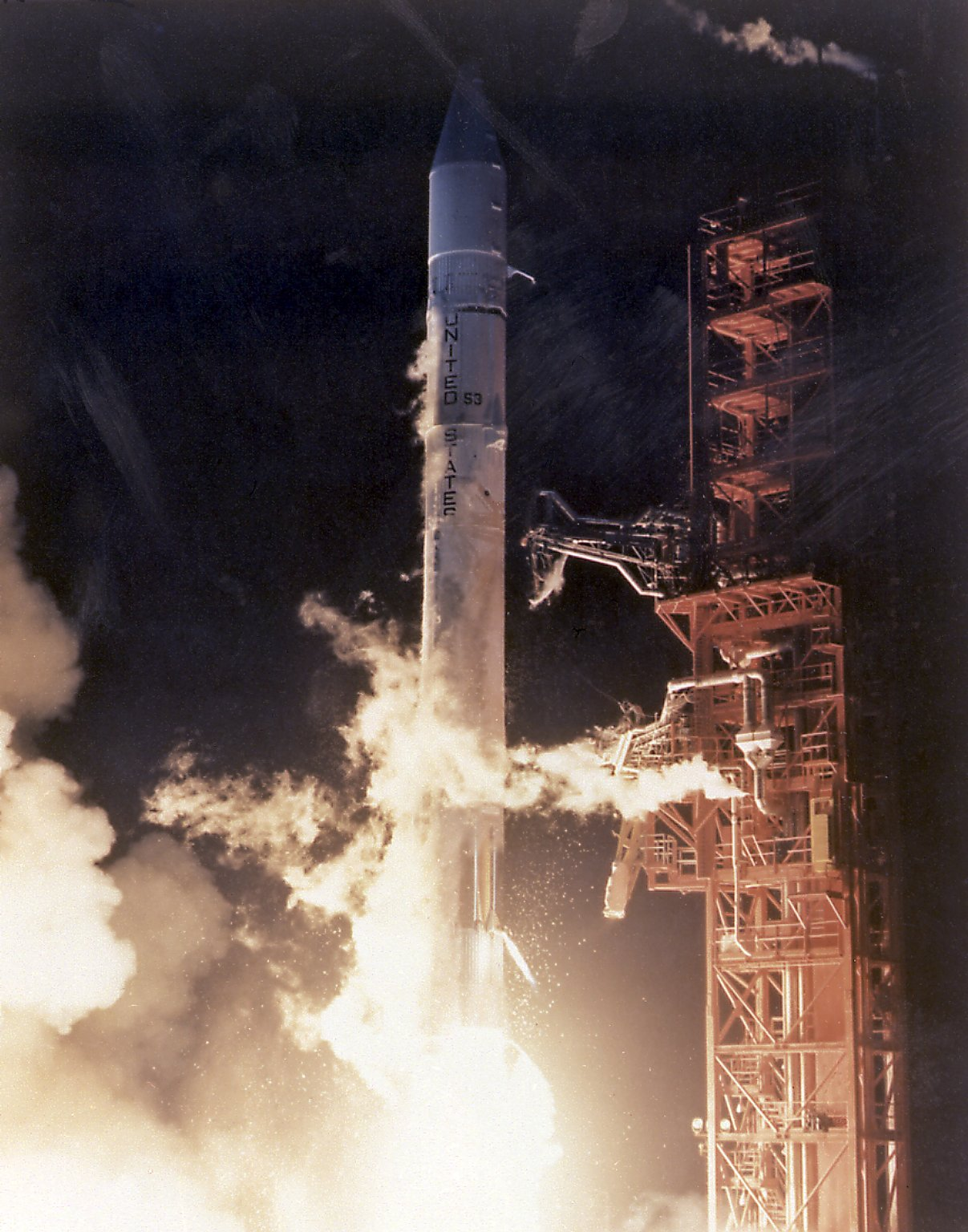 This Atlas/Centaur launch vehicle, carrying the High Energy Astronomy Observatory (HEAO)-3, lifted off on September 20, 1979. The HEAO-3's mission was to survey and map the celestial sphere for gamma-ray flux and make detailed measurements of cosmic-ray particles. It carried three scientific experiments: a gamma-ray spectrometer, a cosmic-ray isotope experiment, and a heavy cosmic-ray nuclei experiment. The HEAO-3 was originally identified as HEAO-C but the designation was changed once the spacecraft achieved orbit.